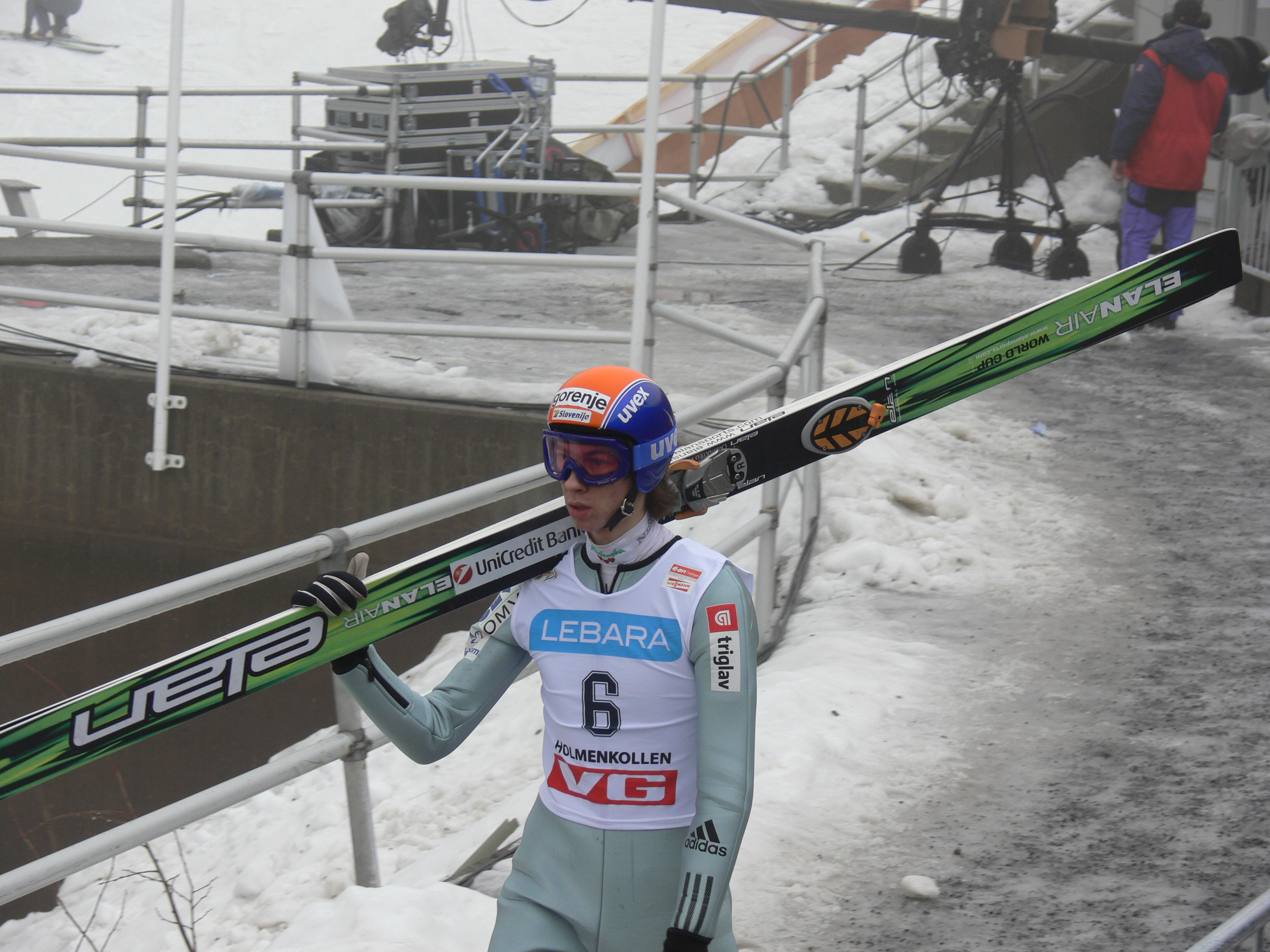 From the 2008 ski jumping World Cup event in Holmenkollen.